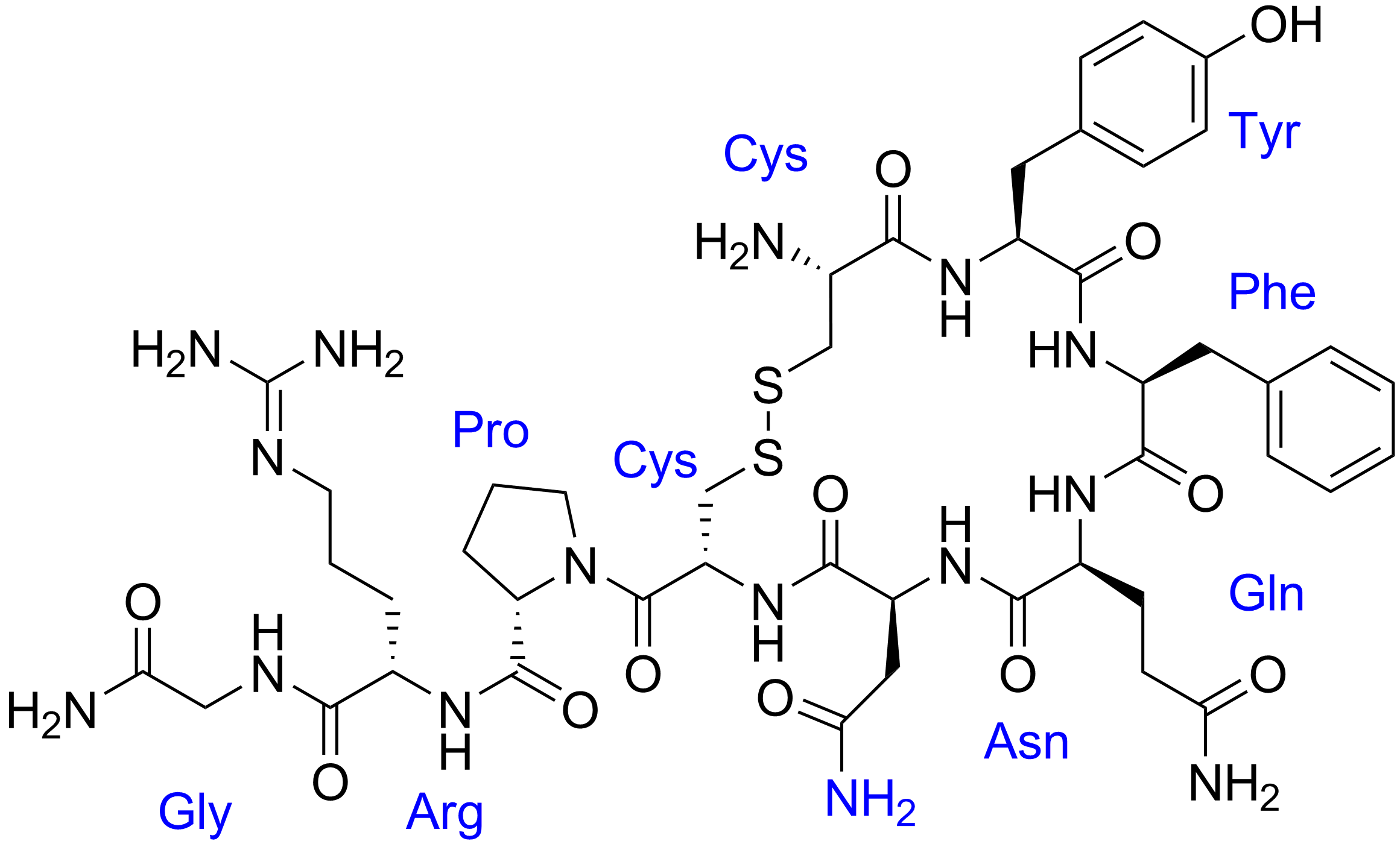 chemical structure of vasopressin (argipressin, arginine vasopressin) with labeled amino acids